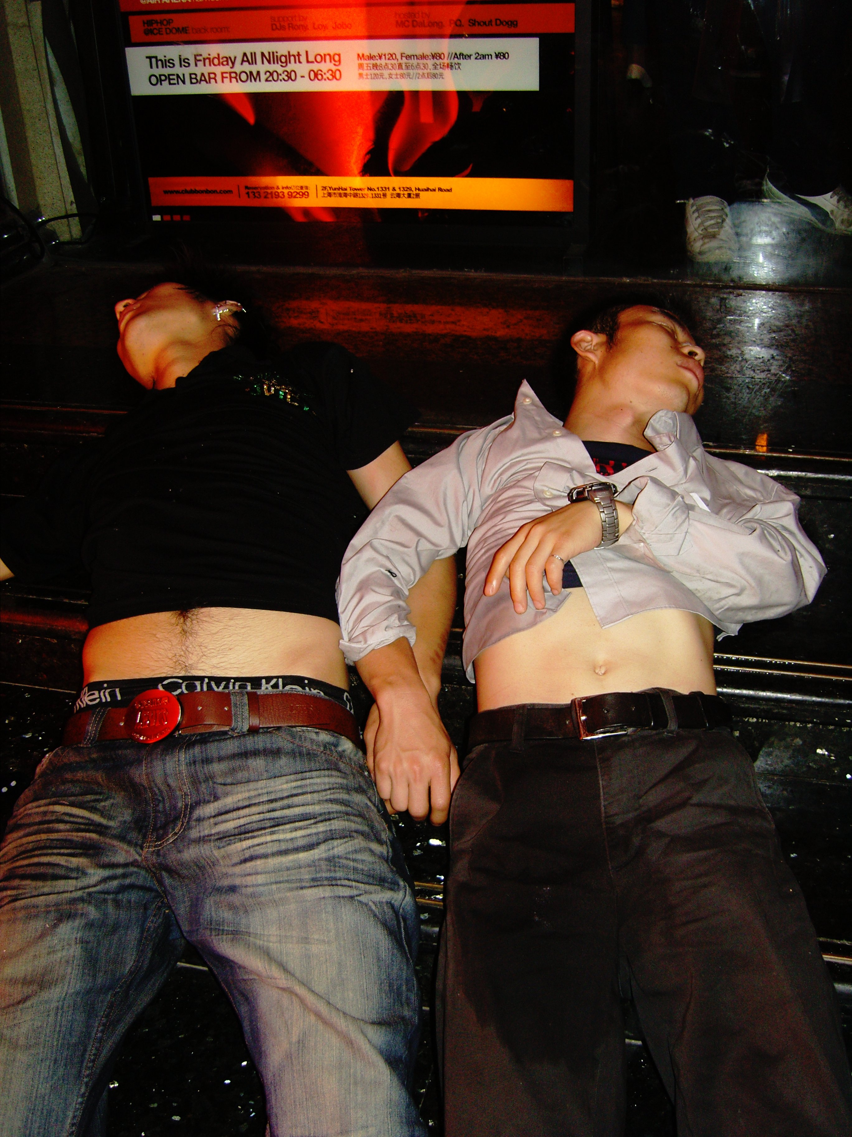 Two intoxicated men who have urinated in their pants both passed out on a street in Shanghai